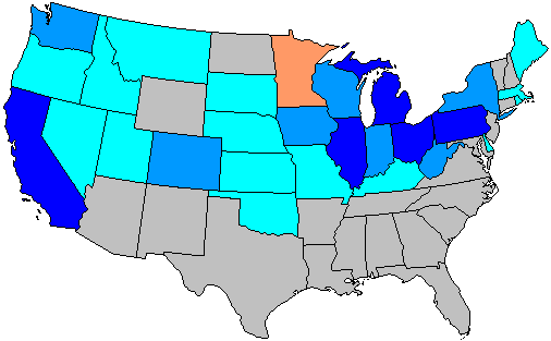 Summary of party change of U.S. house seats in the 1932 House election. Stripes indicate a tie between the gains of two or more parties. Legend: 6+ Democratic seat pickup 3-5 Democratic seat pickup 1-2 Democratic seat pickup 1-2 Republican seat pickup 3-5 Republican seat pickup 6+ Republican seat pickup 1-2 Progressive seat pickup 3-5 Progressive seat pickup 1-2 Farmer-Labor seat pickup 3-5 Farmer-Labor seat pickup Note: years ending in 2 may have inconsistent results due to redistricting.